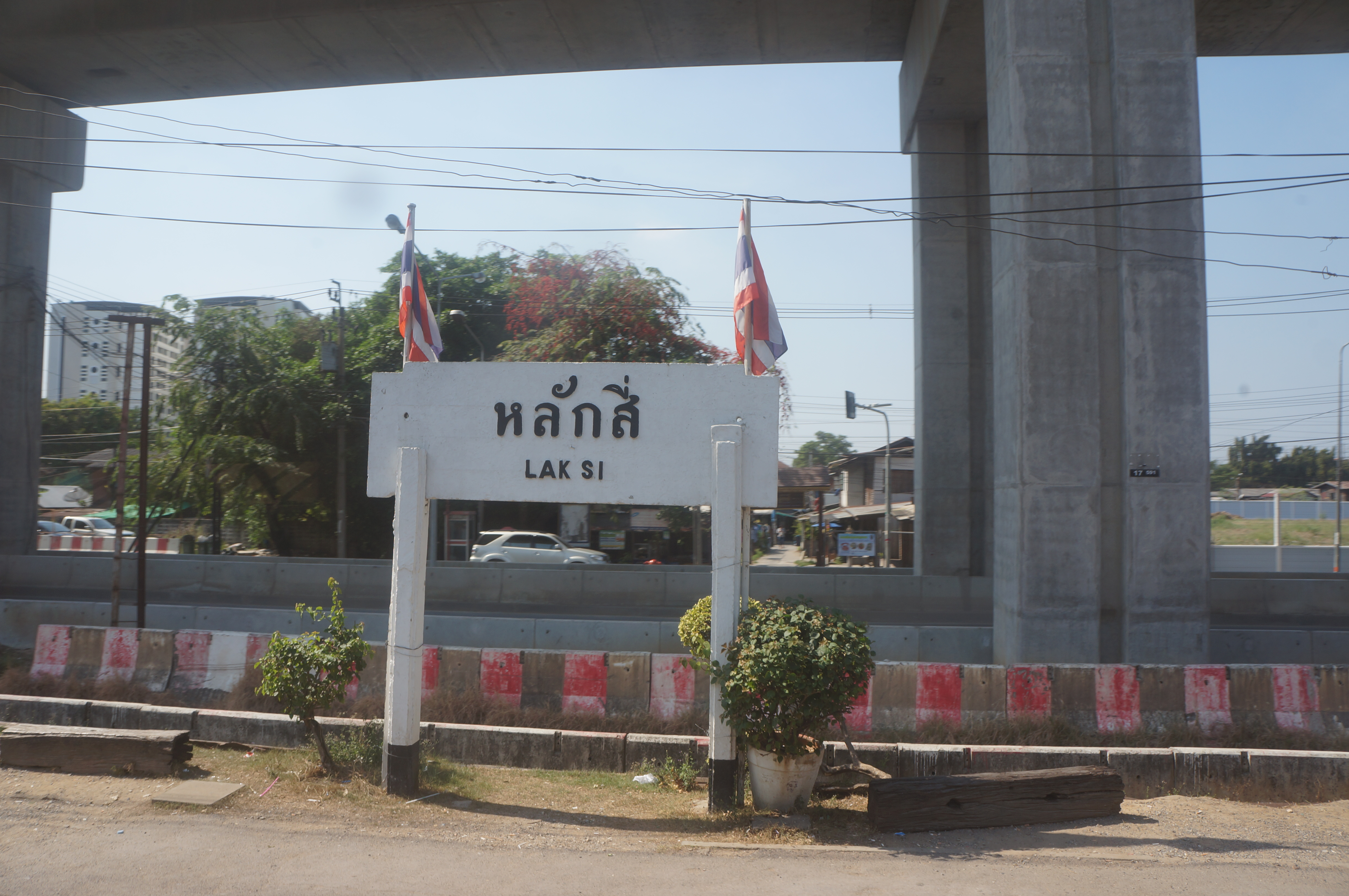 201701 Lak Si Station